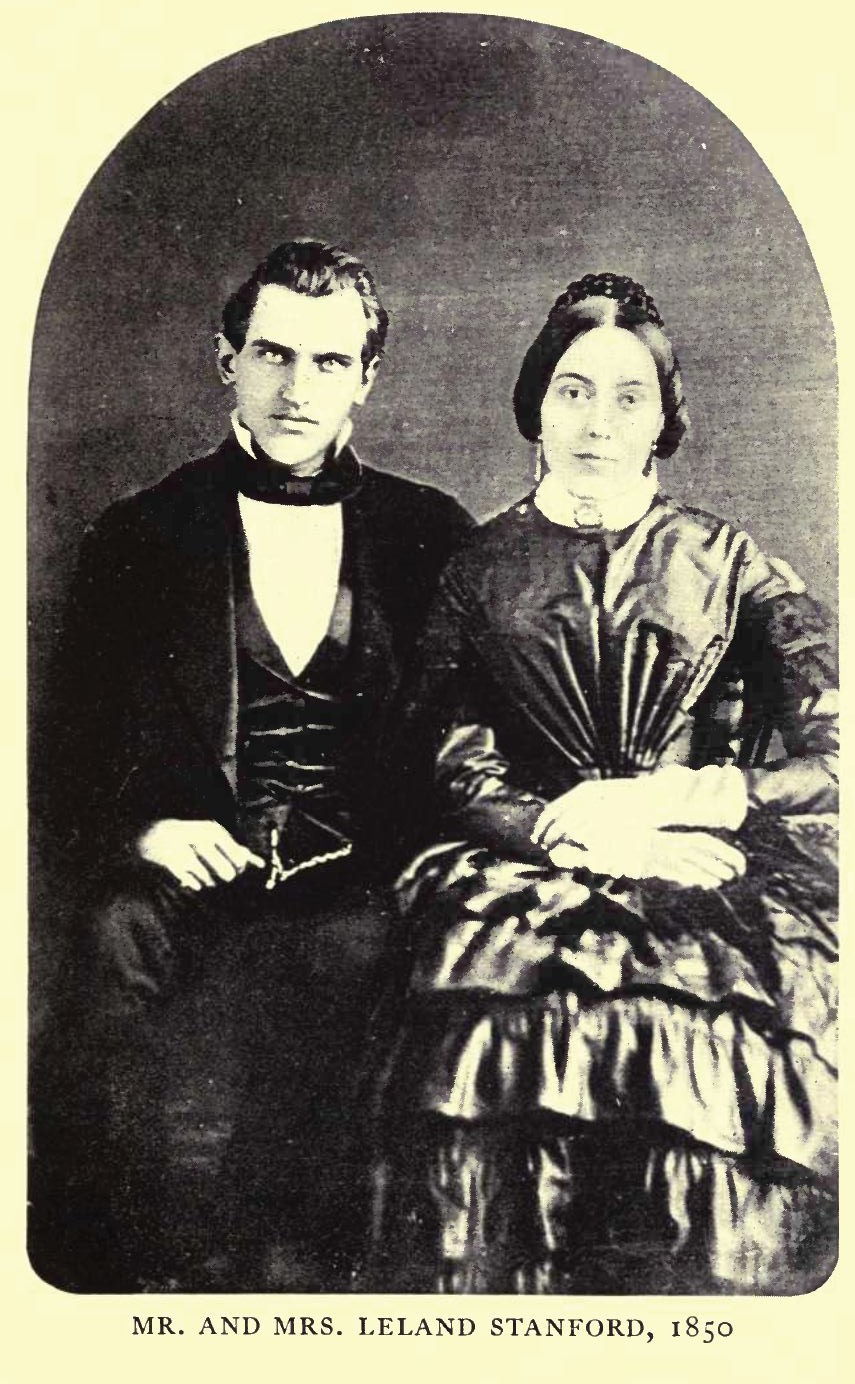 Portrait of Mr. and Mrs Leland Stanford (1850) from Days of a Man the autobiography of David Starr Jordan 1922